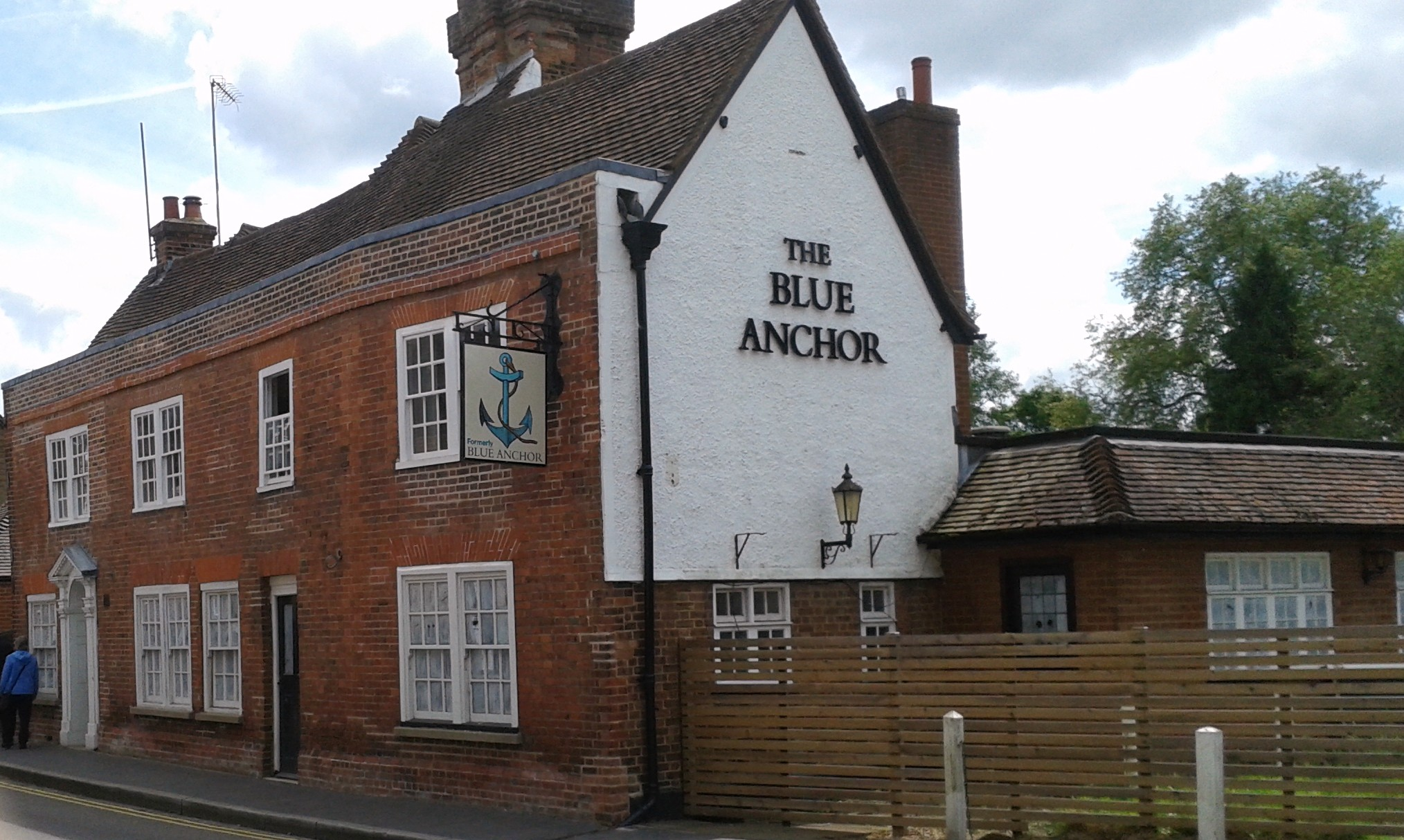 Former Blue Anchor, St Albans